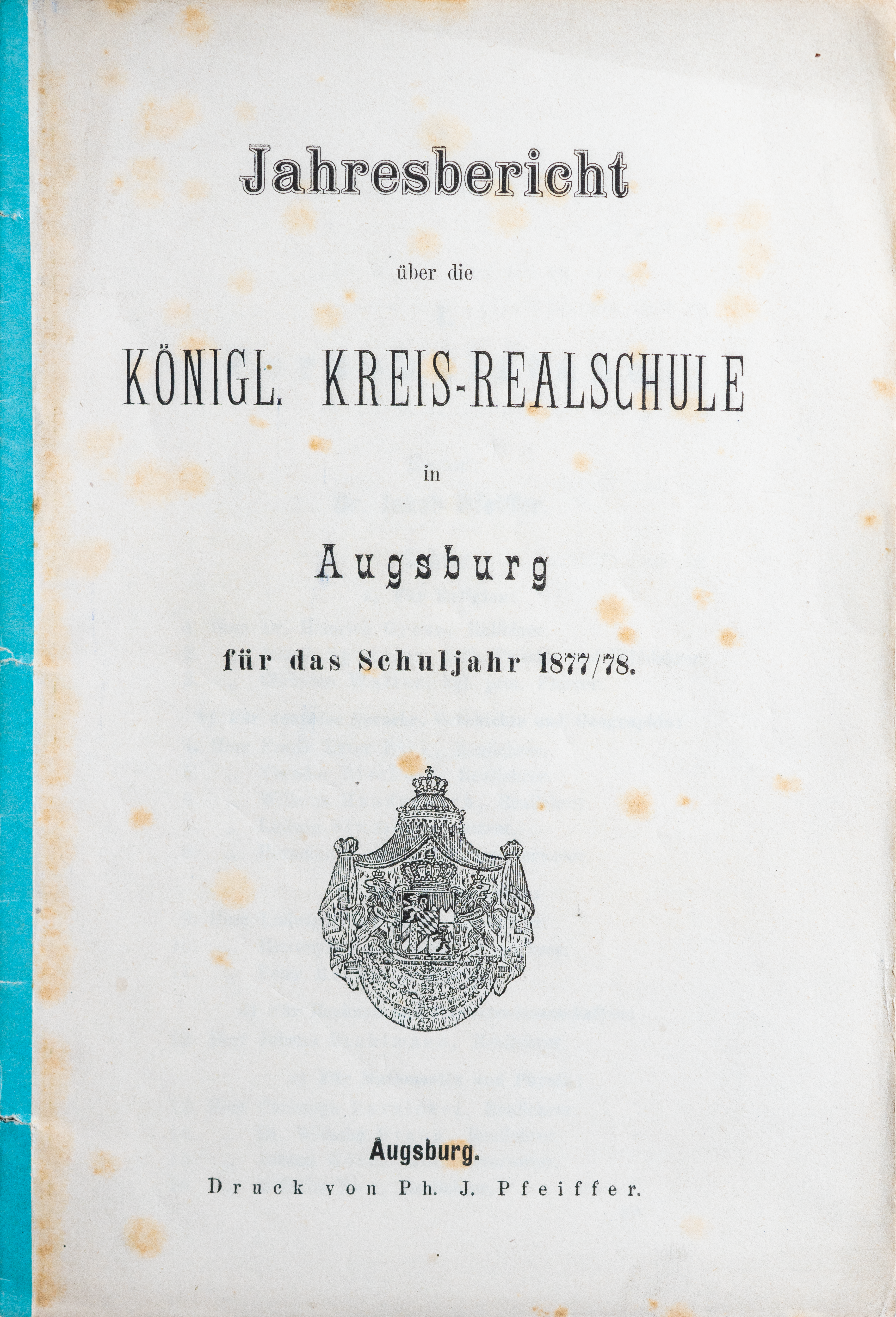 Annual report of the royal district secondary school Augsburg 1877-1878